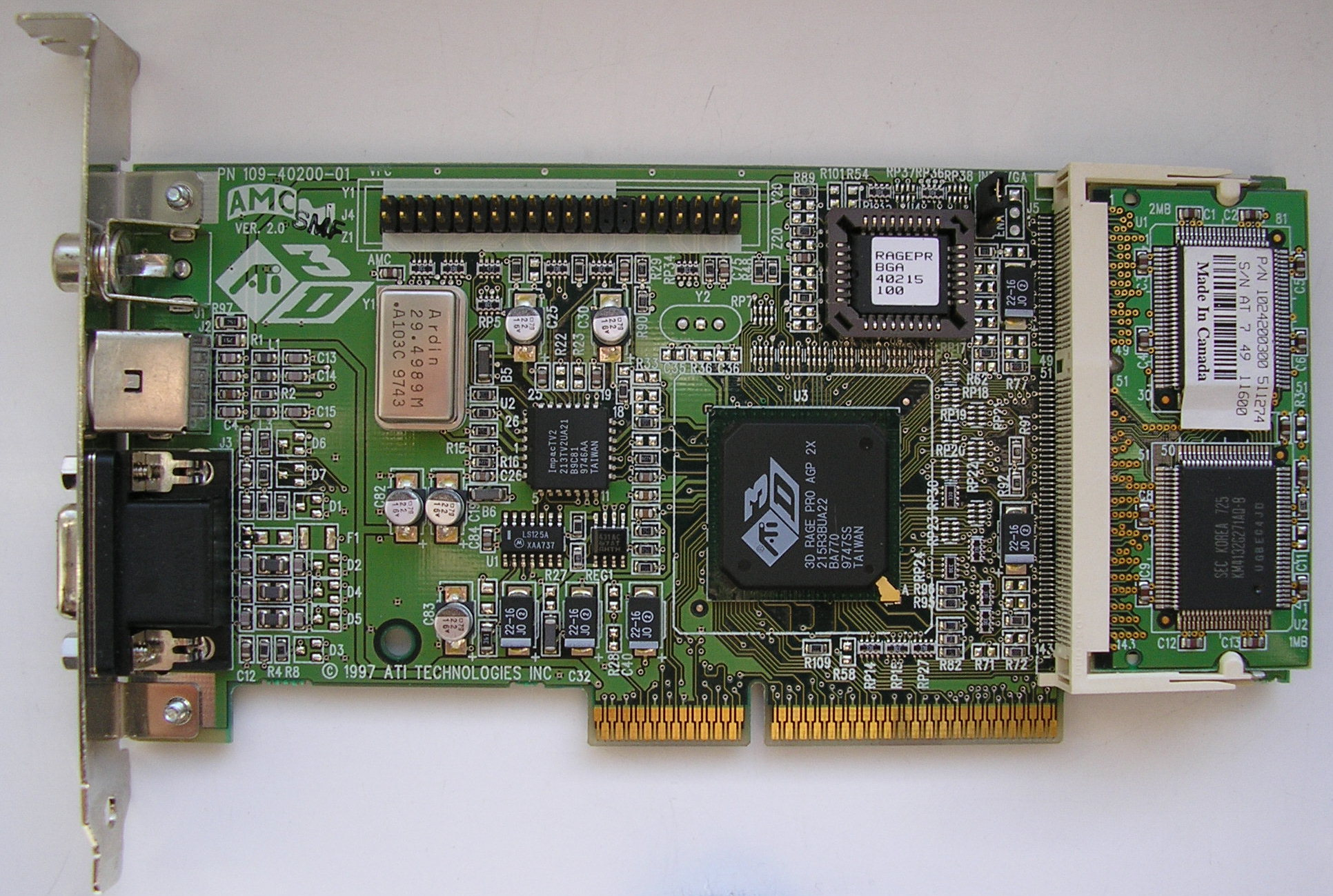 ATI XPERT@Play AGP 8MB SGRAM videocard with ATI 3D RAGE PRO AGP 2X chip from 1997The board has 4MB memory (as the 4MB version) with 4MB memory upgrade modul (factory installed).Home page of this products (on Internet Archive)